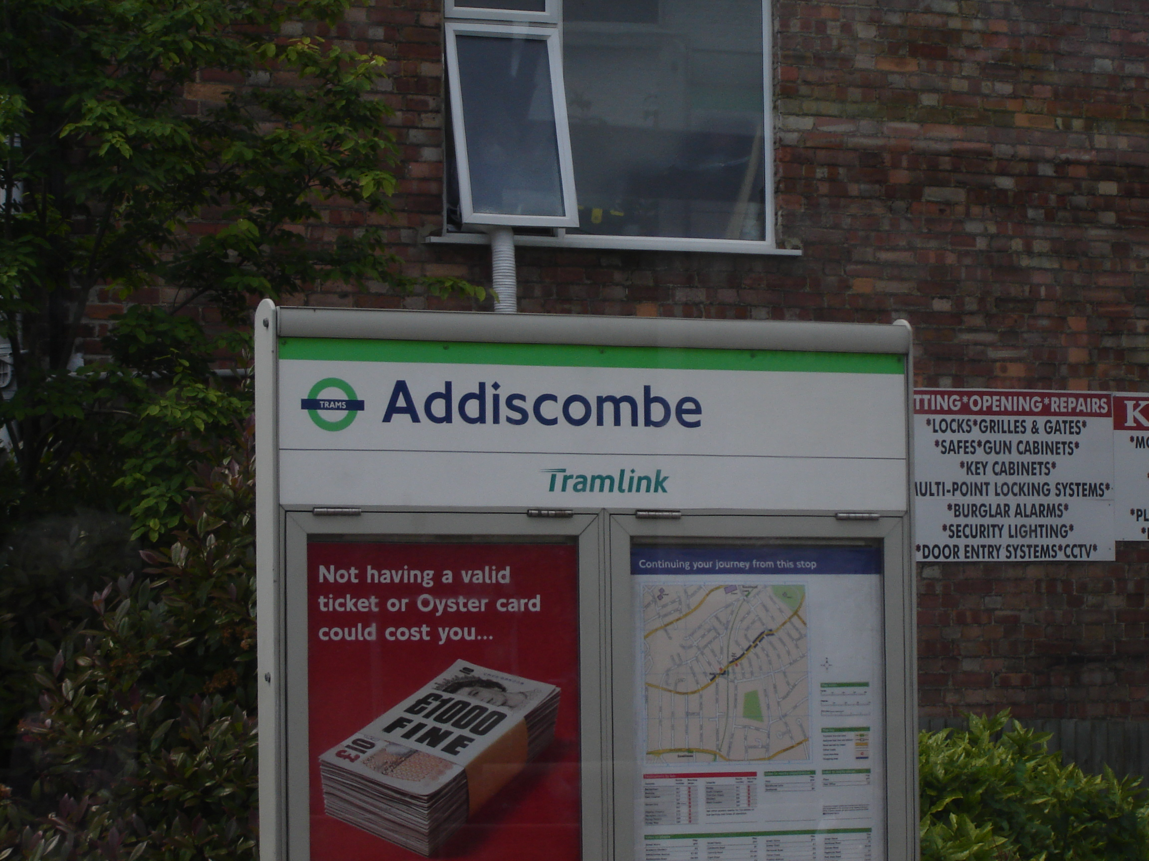 This is a picture of a sign for Addiscombe tram stop.